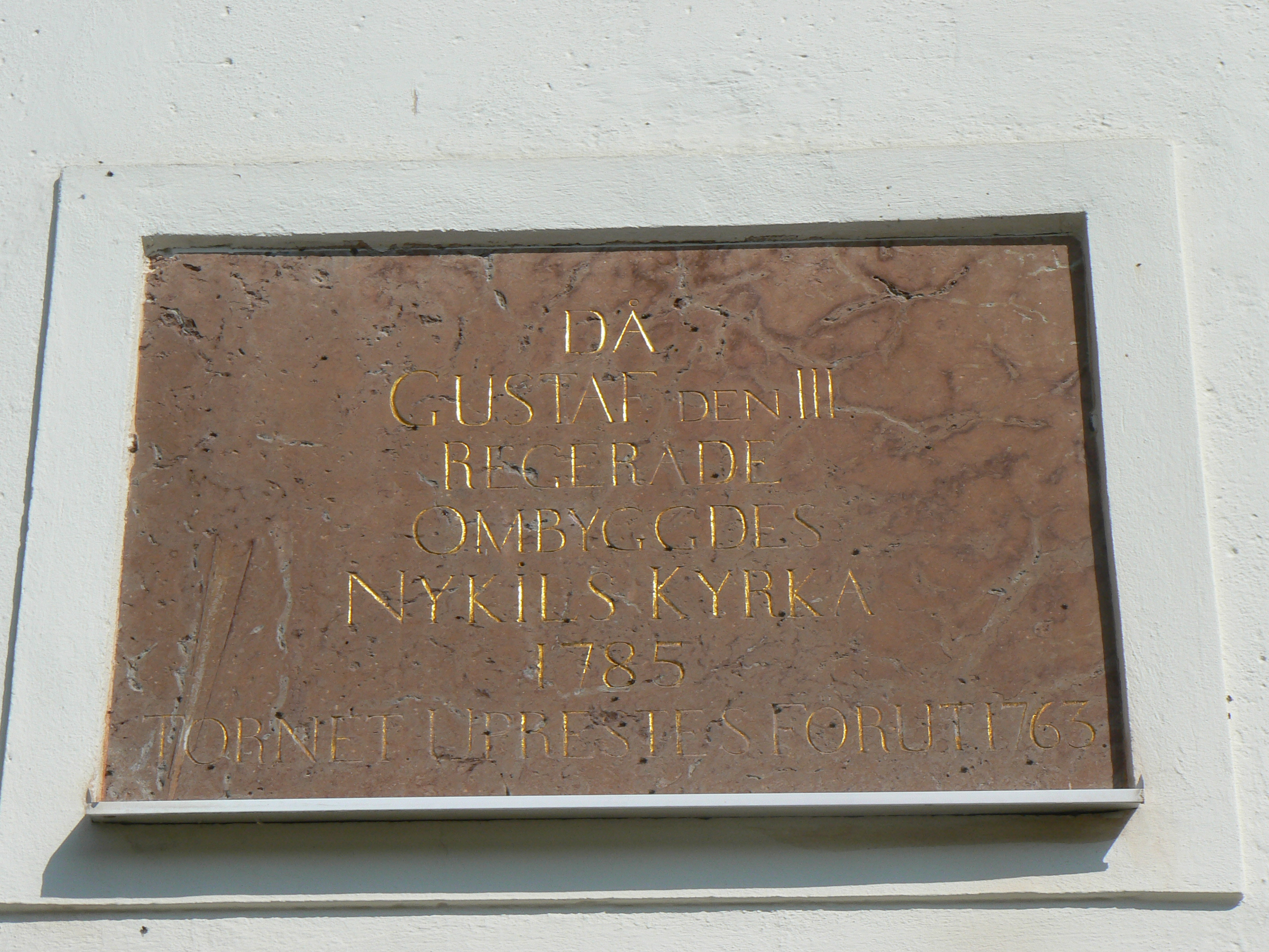 Inscription above the entrence of Nykil church in Sweden.